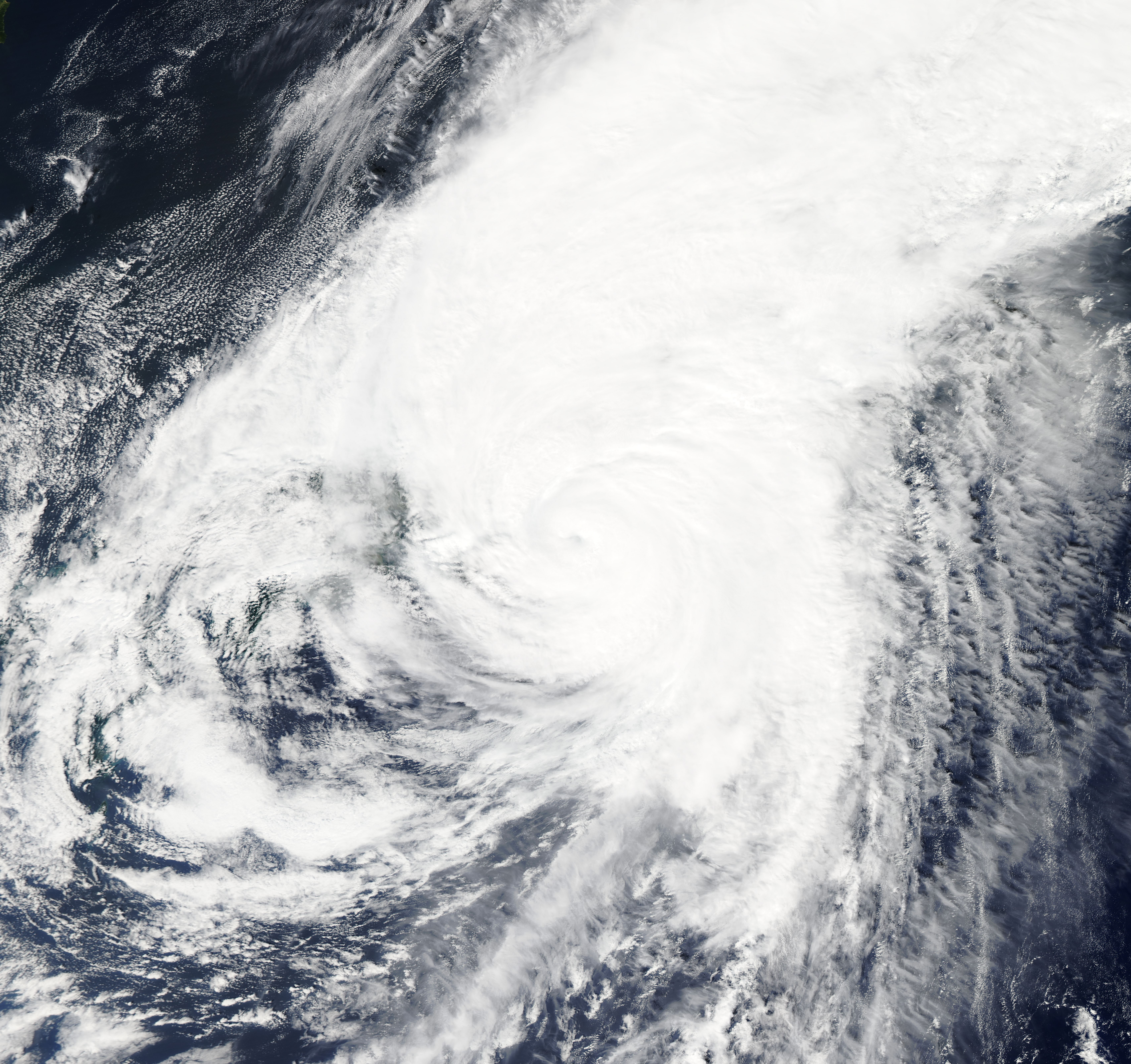 Typhoon Roke affecting Japan on September 21, 2011.